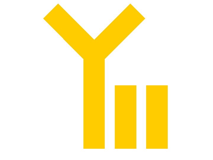 Mark of Ww2 GermanDivision Panzer 9 - 1941-1945